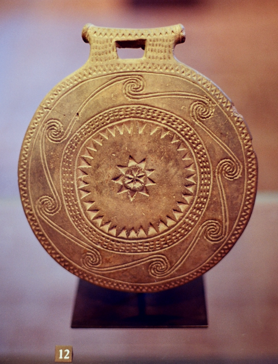 Clay Cycladic “Frying pan” with spirals decoration. Terracotta with stamped and cut decoration. "Non feminine" type. 20 cm / 22 cm. From Syros? Early Cycladic I–II (cca 2700 BC, Kampos phase).